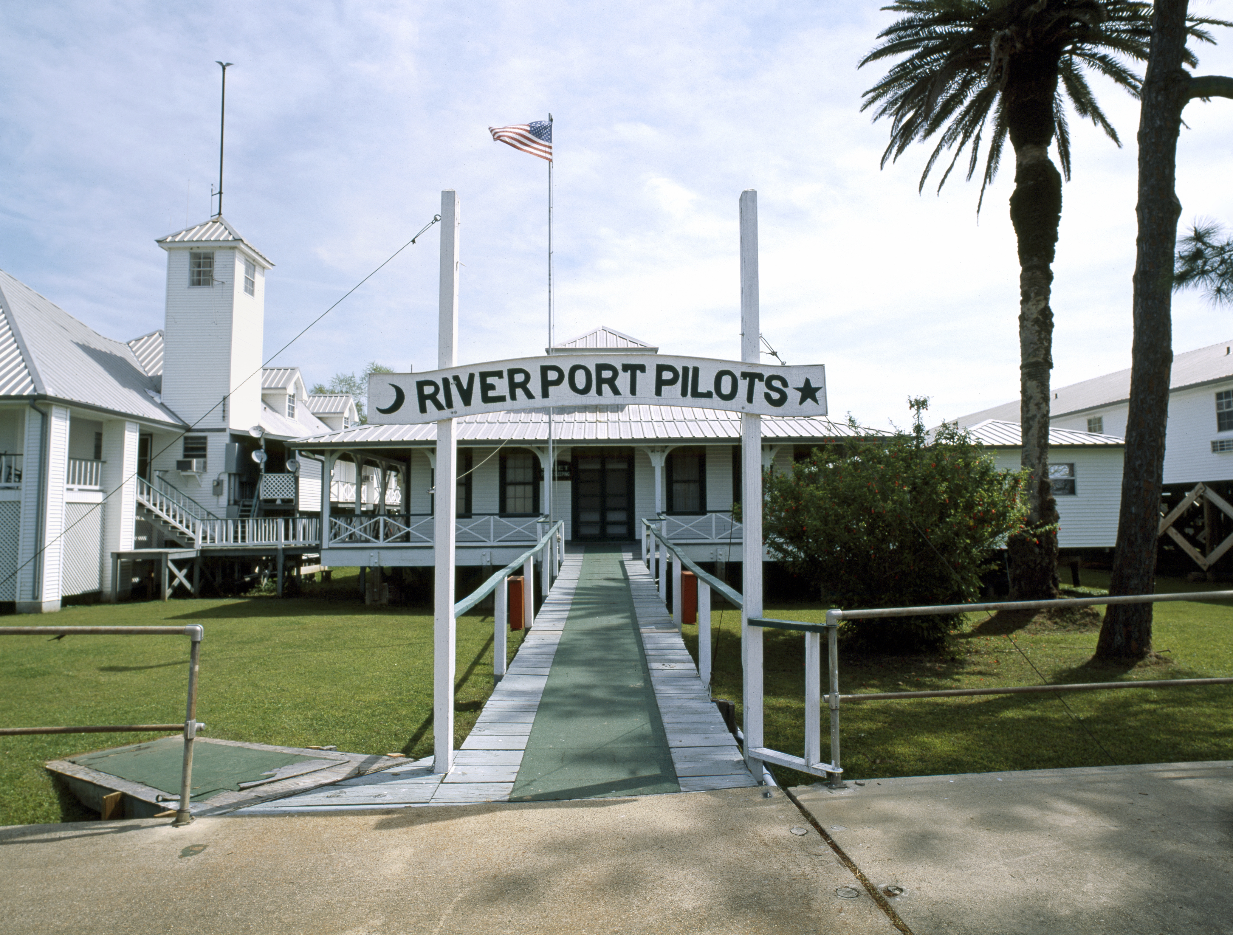 Pilottown, Louisiana Note: LOC website lists image as "Pilottown, Mississippi"; it is actually in Louisiana, on the banks of the Mississippi River.